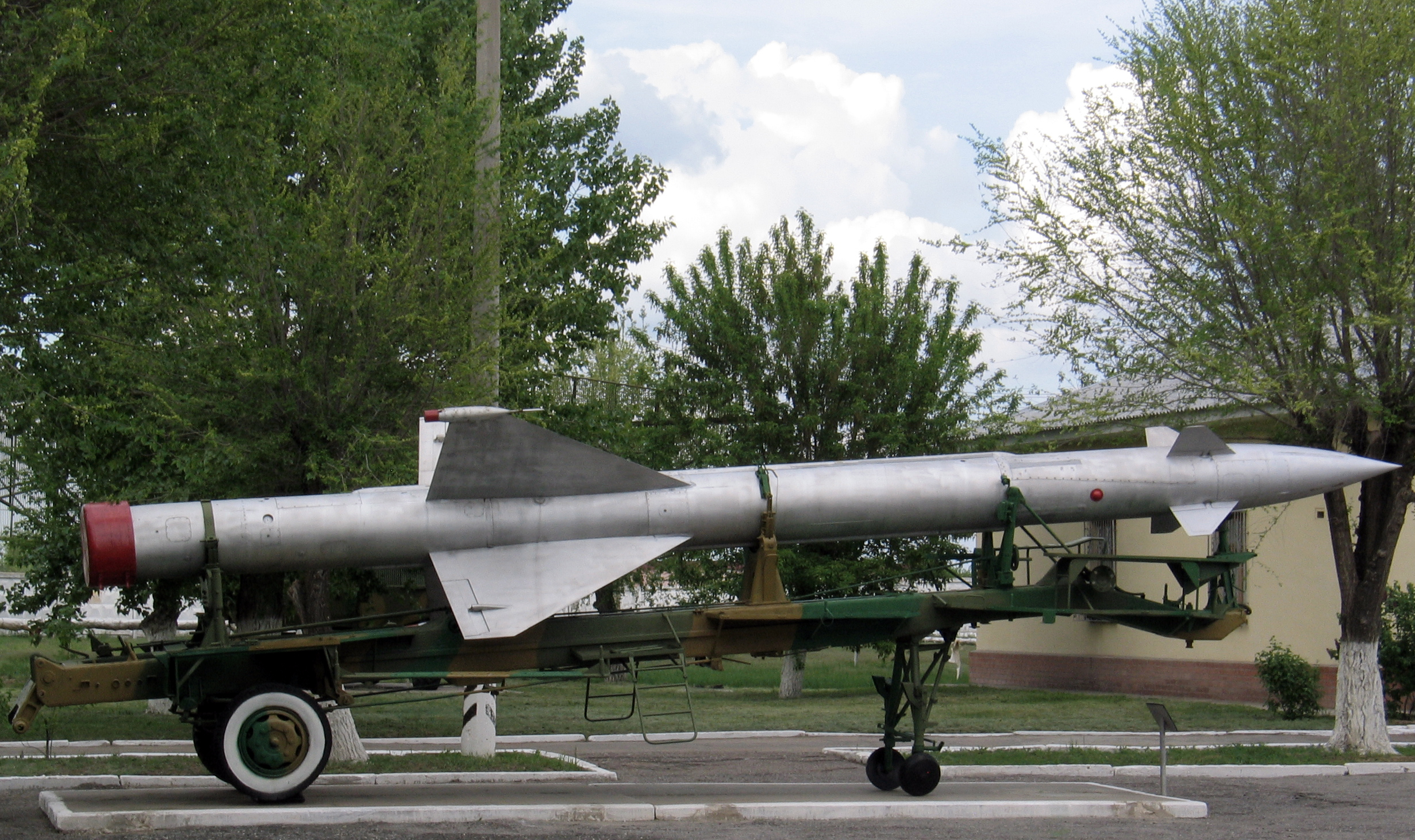 S-25 (NATO reporting name SA-1 Guild) Soviet designed high-altitude, command guided, surface-to-air missile (SAM) system for Moscow air defence. Kapustin Yar museum in Znamensk, Russia.